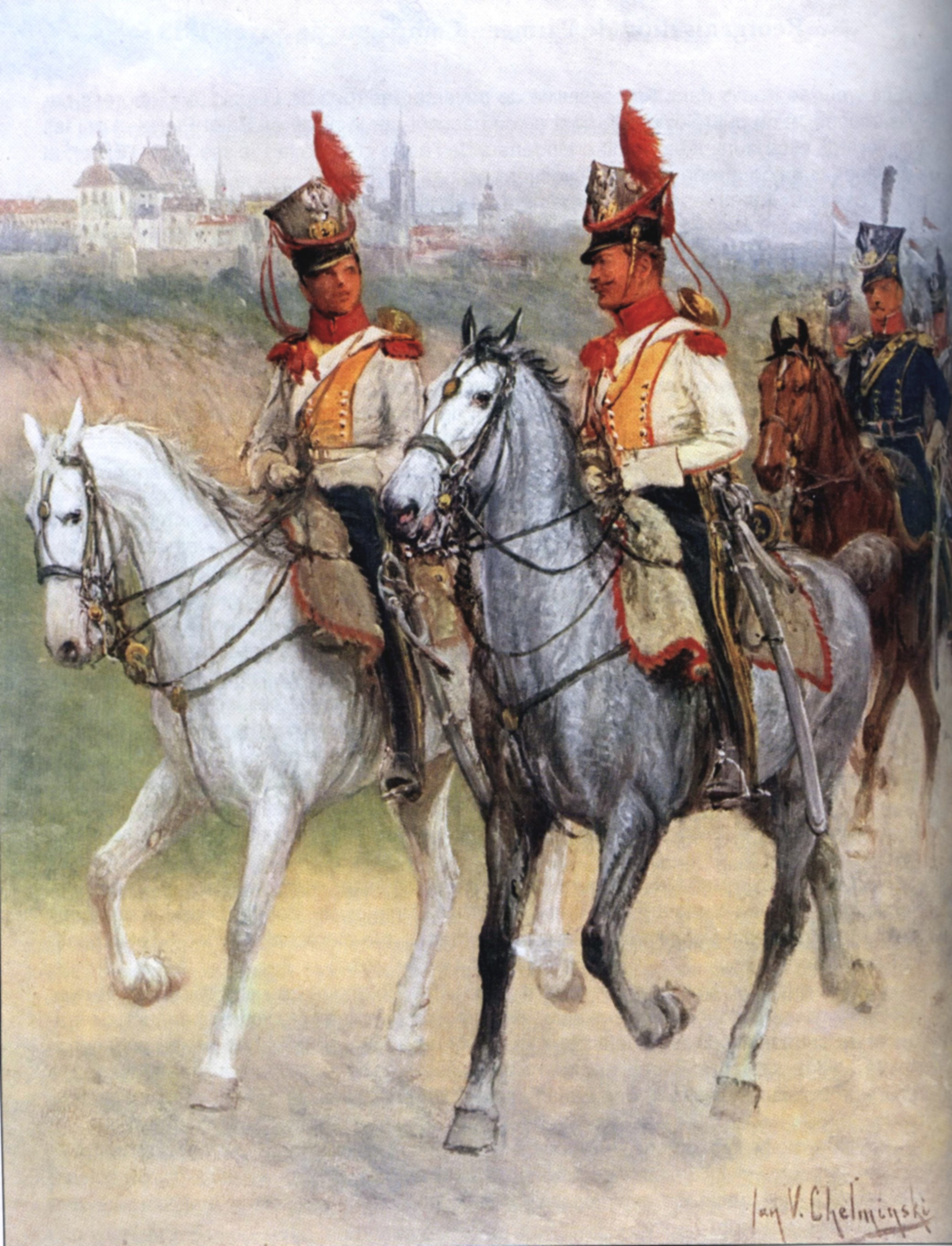 2nd Uhlan Regiment of Duchy of Warsaw